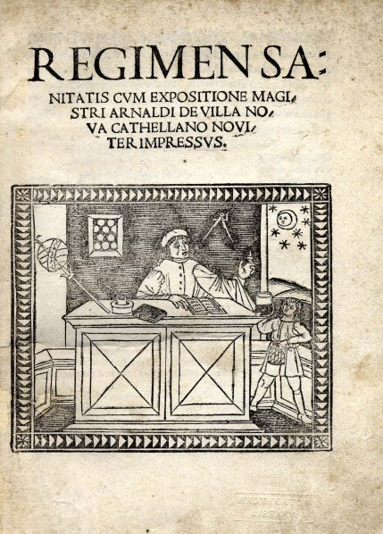 Title page from the first print edition (Venice, 1480) of the Regimen Sanitatis Salernitanum, with the commentary of Arnaldus de Villanova (the Catalan). The title reads: Regimen Sanitatis Salernitanum cum expositione magistri Arnaldi de Villanova Cathellano noviter impressus. Venetiis: impressum per Bernardinum Venetum de Vitalibus, 1480.